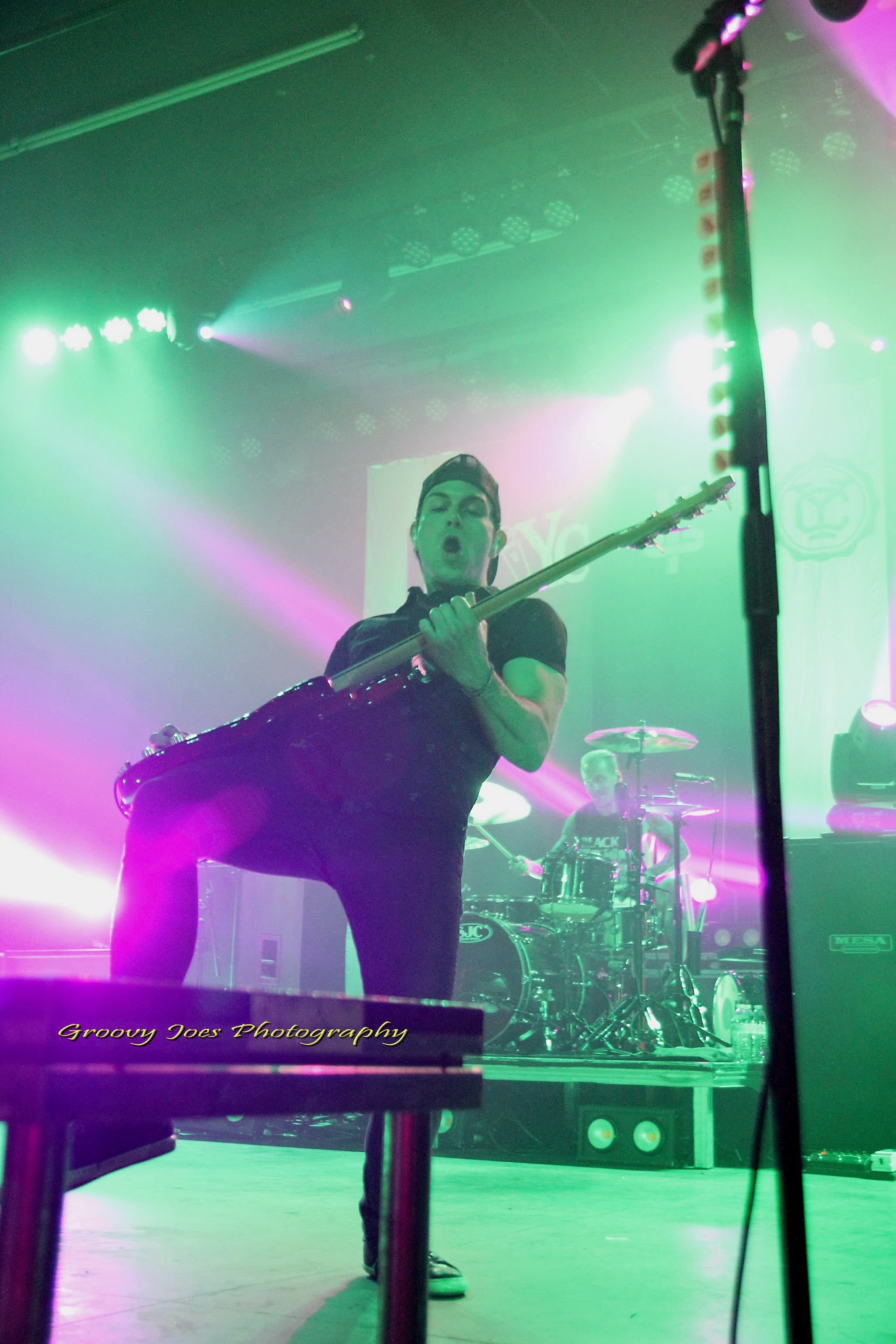 Last Yellowcard show in Arizona